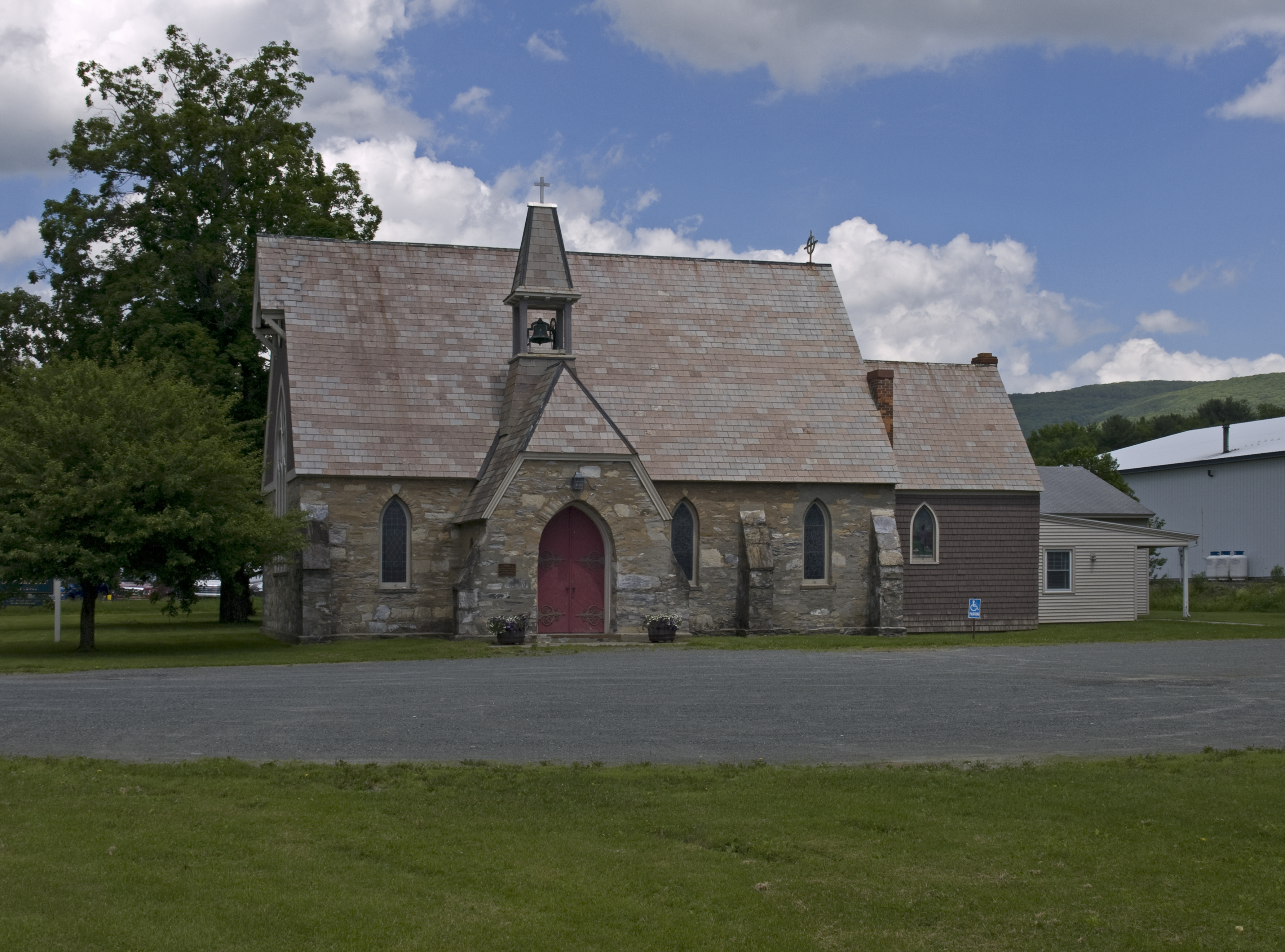 Church of Our Saviuor, New Lebanon, NY